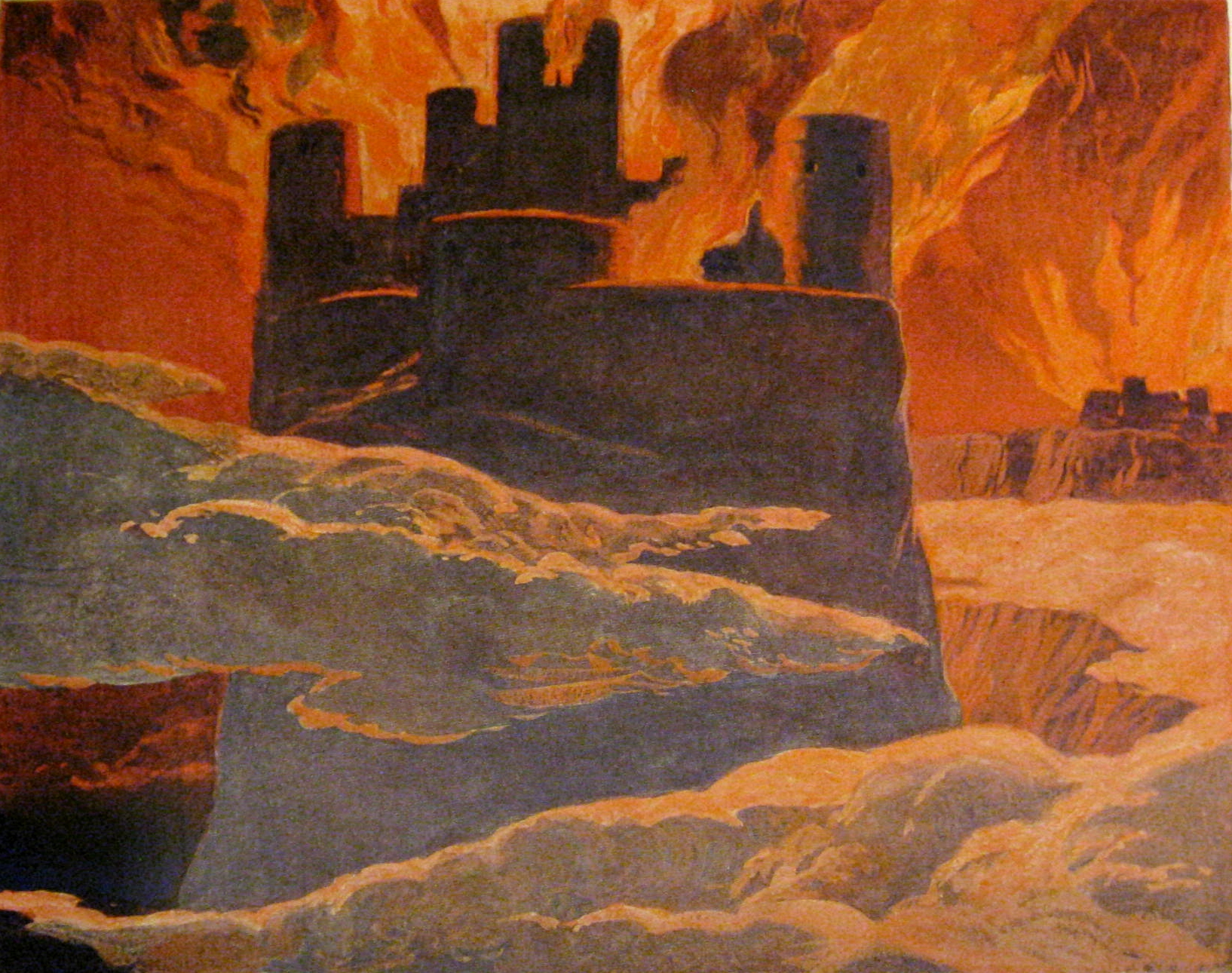 A scene from the last phase of Ragnarök, after Surtr has engulfed the world with fire. The surrounding text implies that this is Ásgarðr (Asgard) burning.